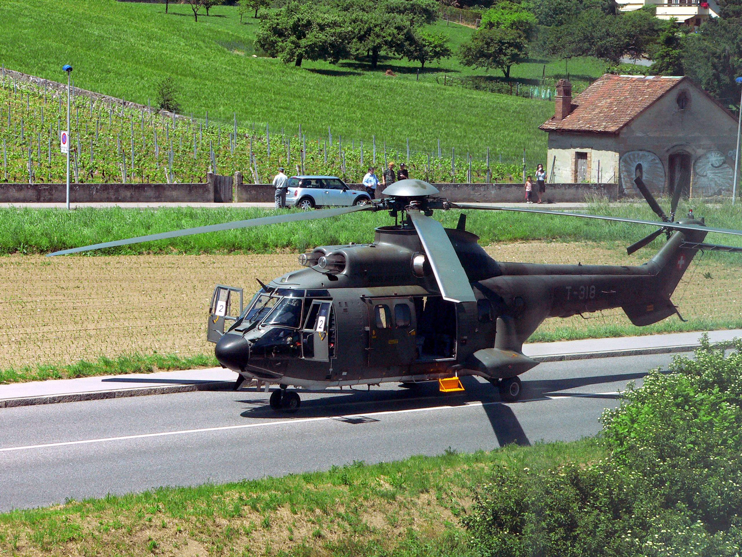 Super Puma helicopter of the Swiss Army at the EPFL during a visit by Avul Pakir Jainulabdeen Abdul Kalam, President of India, 26th of May 2005. Photograph by Rama